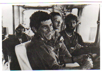 Commander Mike Eldar on the bridge of LCT60 during the Peace of Galilee operations